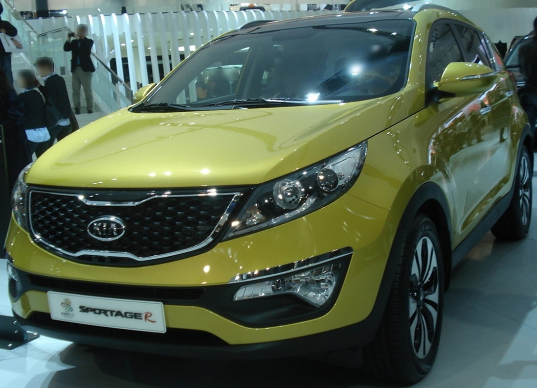 Kia Sportage R